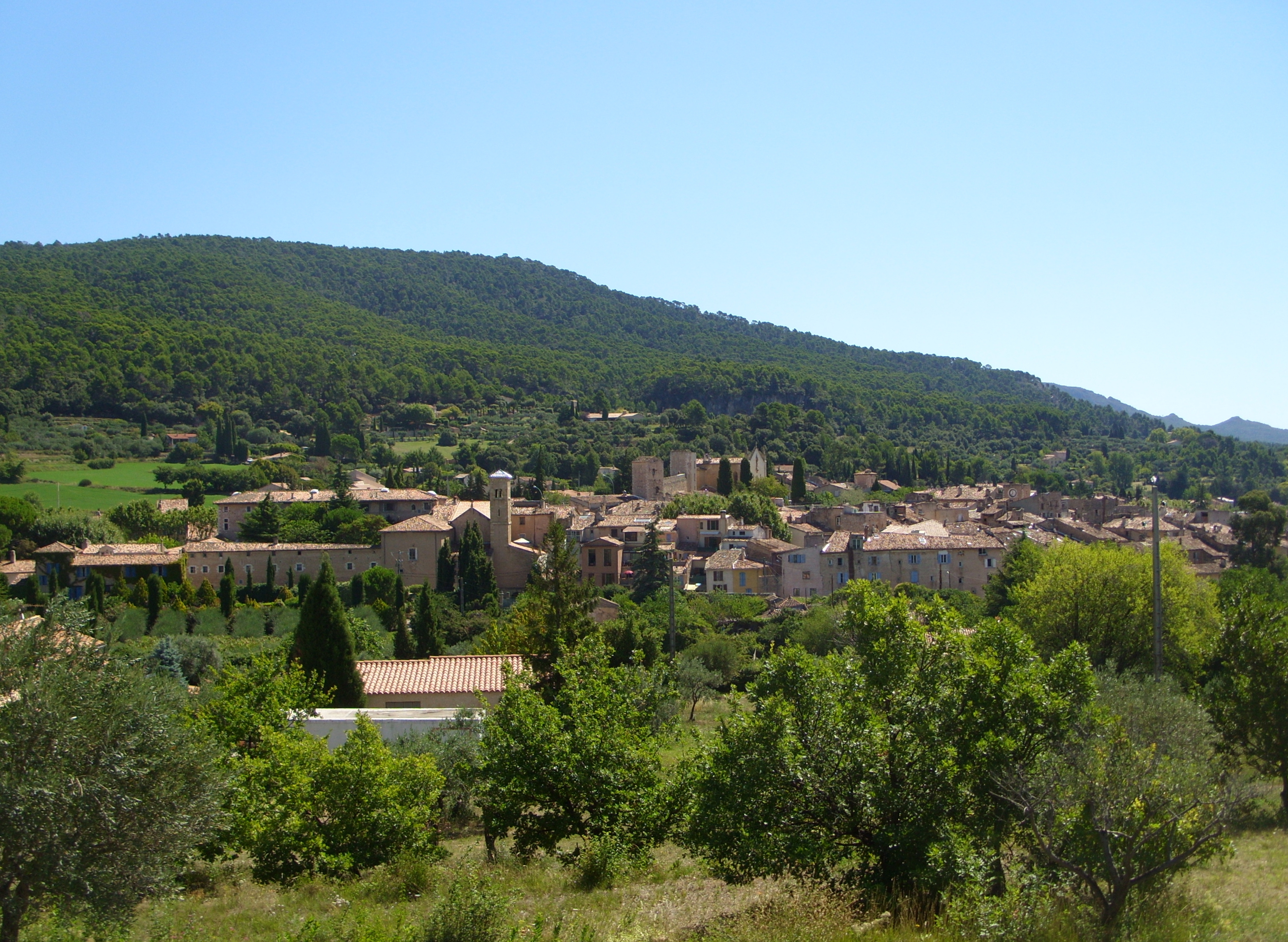 View of the village Aups from the chemin Ste Catherine.